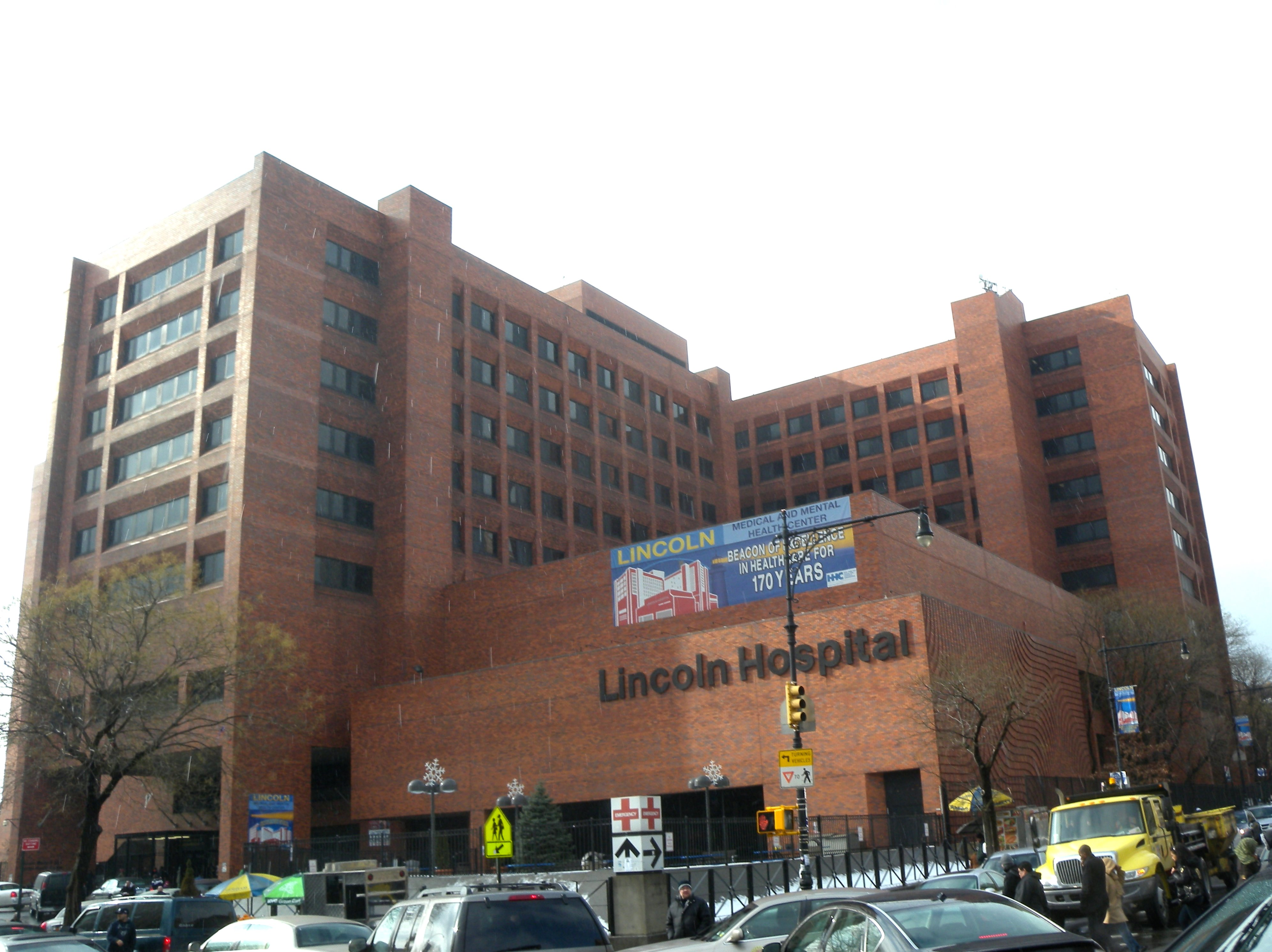 Looking west across Morris Avenue and 149th at Lincoln Hospital on a rainy midday.